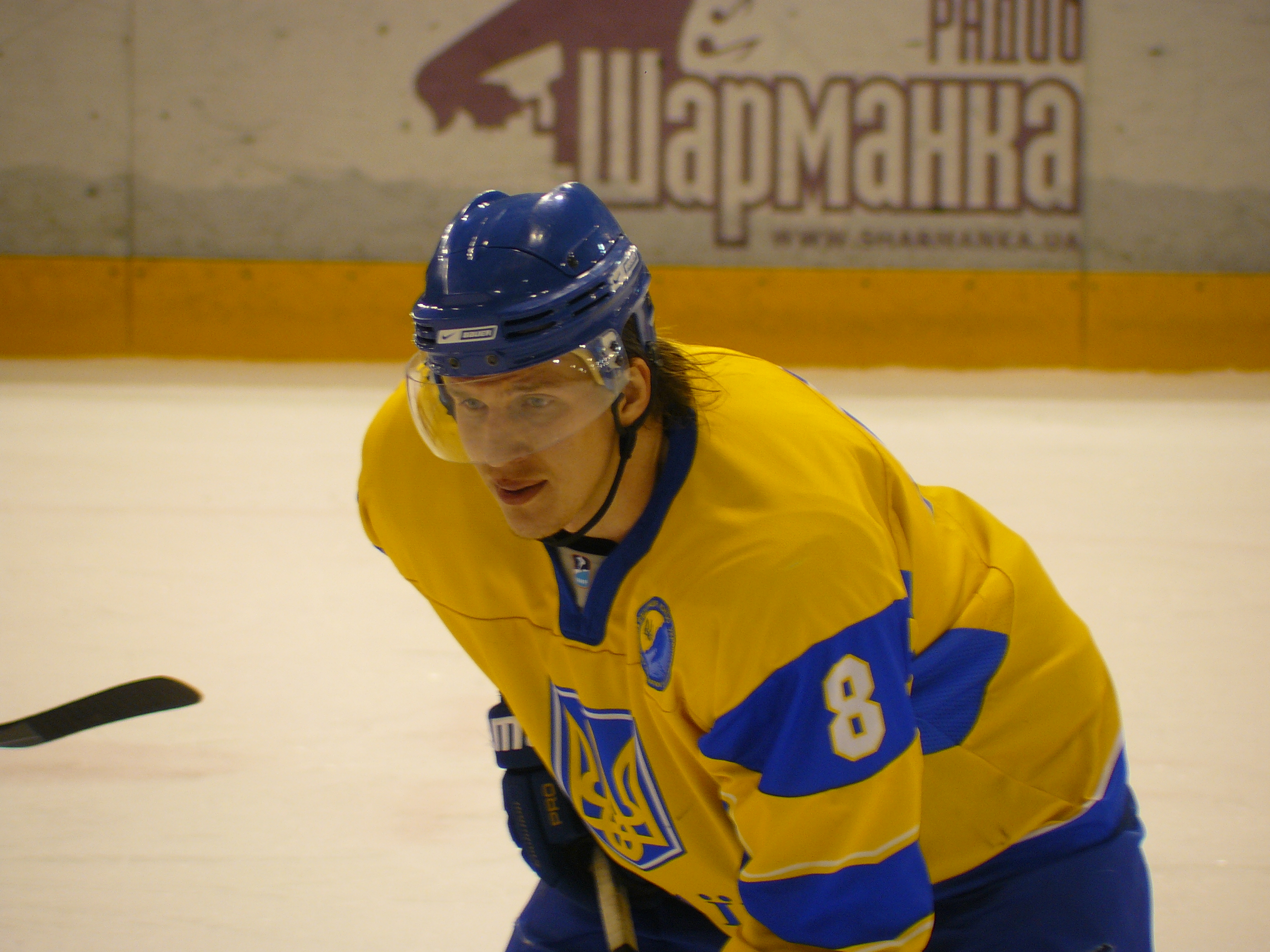 Forward Andriy Mikhnov #8 of the Ukraine during the friendly game against the Poland on April 9, 2010 at the Terminal Arena in Brovary, Ukraine. Ukraine won the game 5:1.